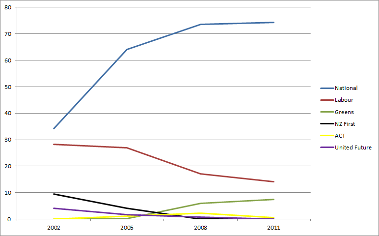 Electoral results of the New Zealand electorate of Helensville since 2002. National Party Labour Party Green Party New Zealand First ACT New Zealand United Future